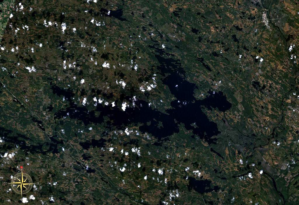 Lake Nyuk in Russia. Satellite picture.